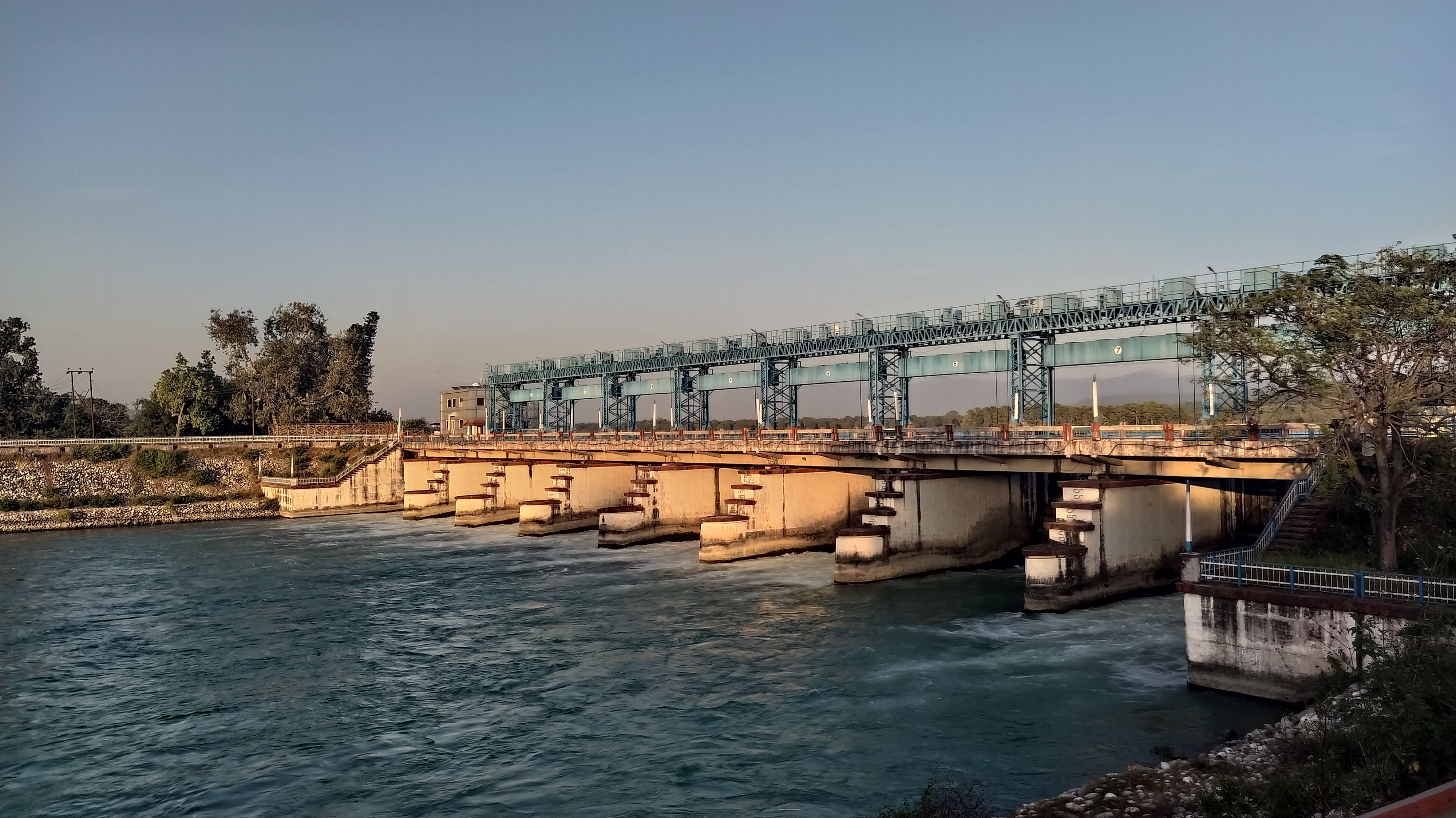 The diversion of ganga into the artificial upper ganga canal. This segment enters into the popular tourist destination, Har-Ki-Pauri in Haridwar.